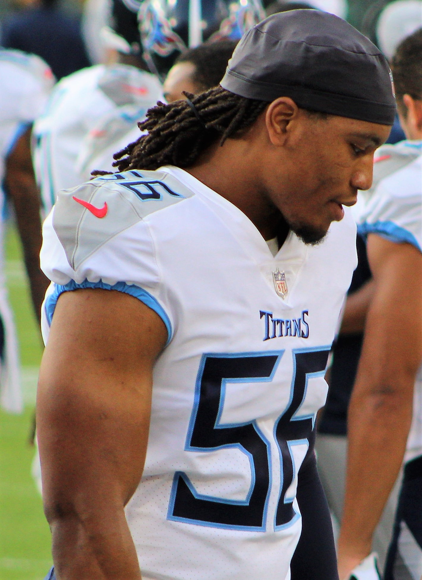 Sherif Finch, Tennessee Titans at Green Bay Packers (Preseason), August 9, 2018